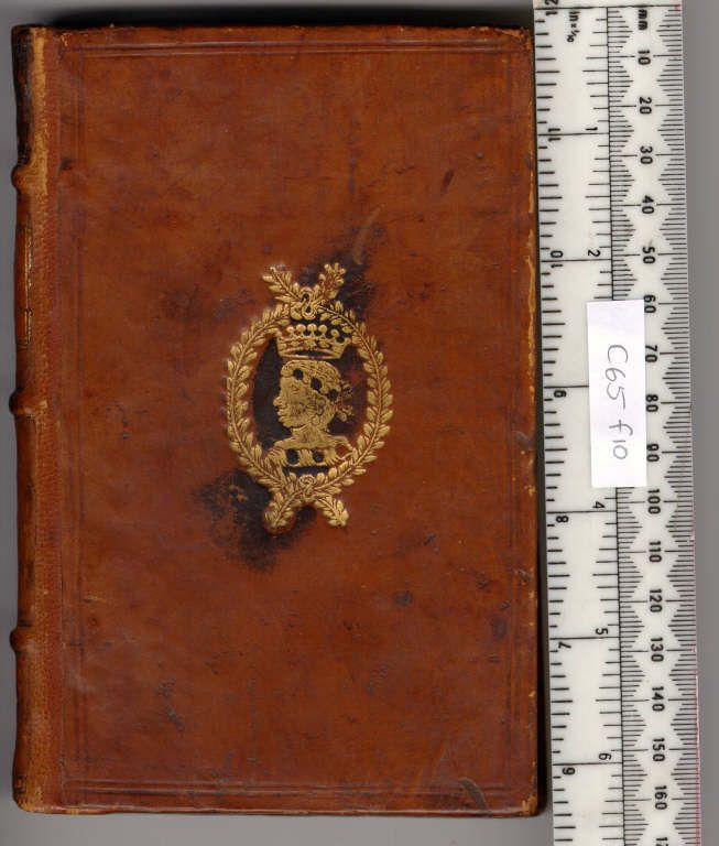 Style: Armorial; Caption: Upper cover; Colour: Brown; Edge: Red